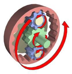 In this simple epicyclic gear mechanism, the inner gear or "sun gear" (green) provides the input rotation. The two "planet gears" (blue) rotate freely about the planet gear carrier (yellow) which is fixed. As the planet gears rotate about the sun gear, they propel the outer ring gear or "annulus" (red), which provides the output rotation